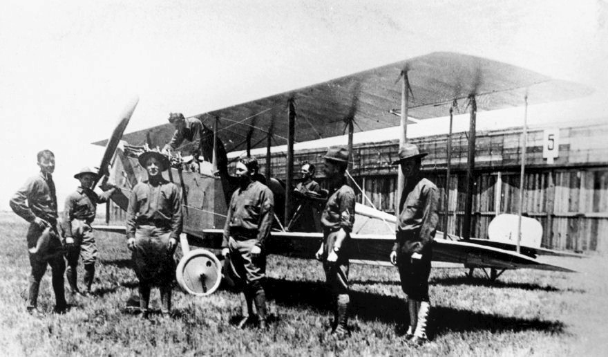 The first of the new 1st Aero Squadron Curtiss JN–2s at the Signal Corps Aviation School, North Island California. Sgt Vernon L. Burge stands under the propeller. The figure in the cockpit appears to be Capt. Foulois. Second man from the right is Jacob Bollinger. (Vernon L. Burge Collection, Airman Memorial Museum.)